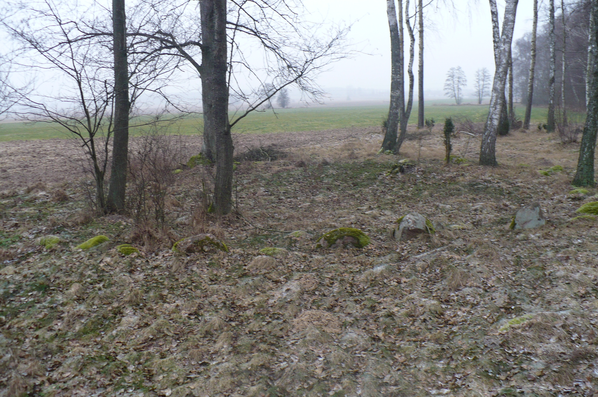 Boneyard in Rostki, gmina Troszyn - stone rings of II-IV century of C.E..